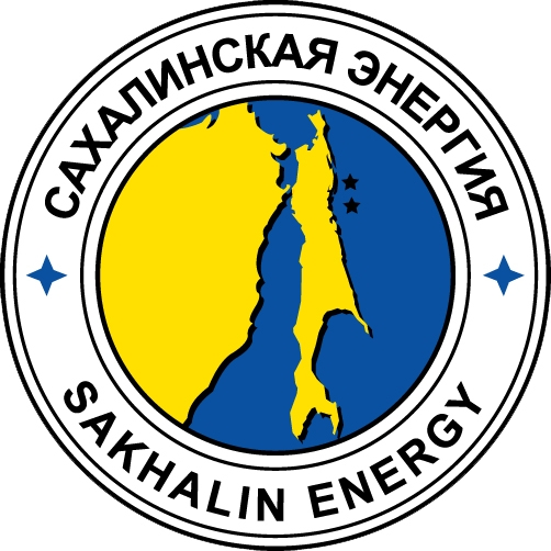 Registered logo of Sakhalin Energy Investment Company Ltd.